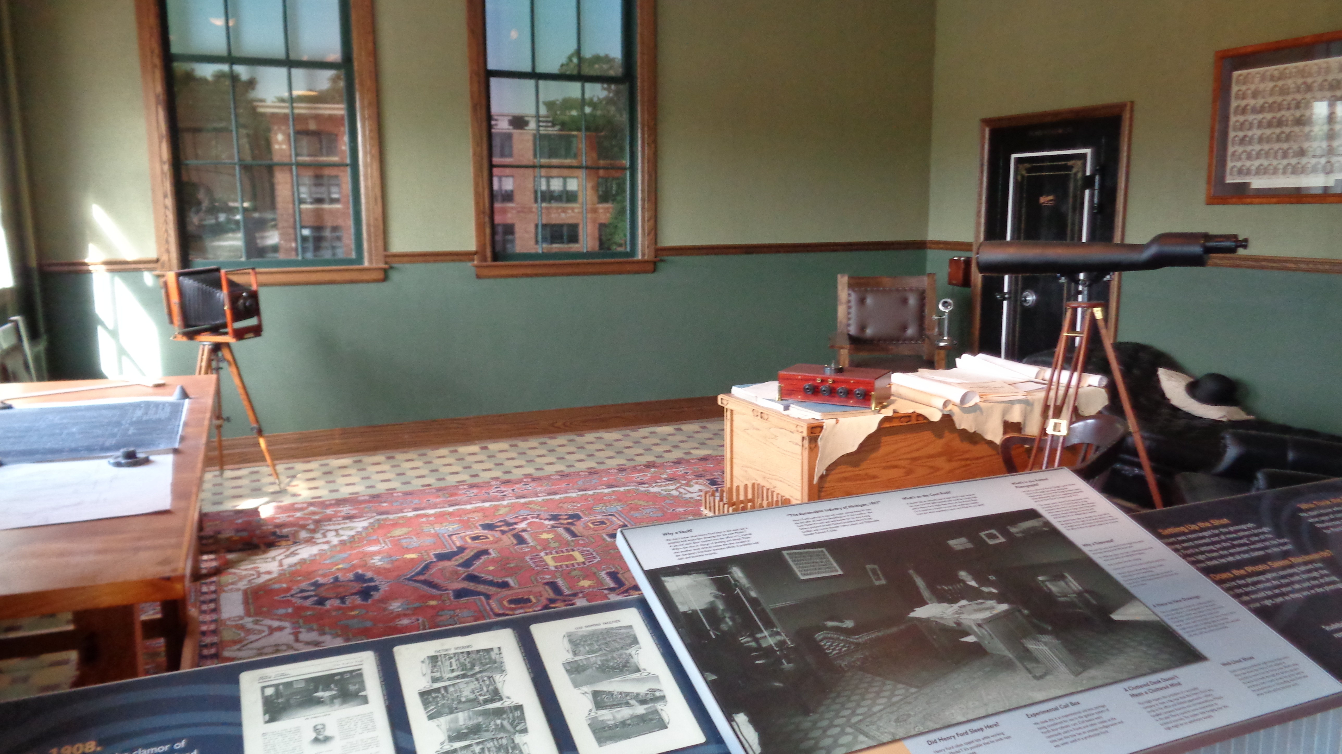 Henry Ford's Office in the Ford Piquette Avenue Plant. Note the birdwatching telescope on the right. The large image in the foreground shows Henry Ford sitting in the office circa 1908 (source: [1]).